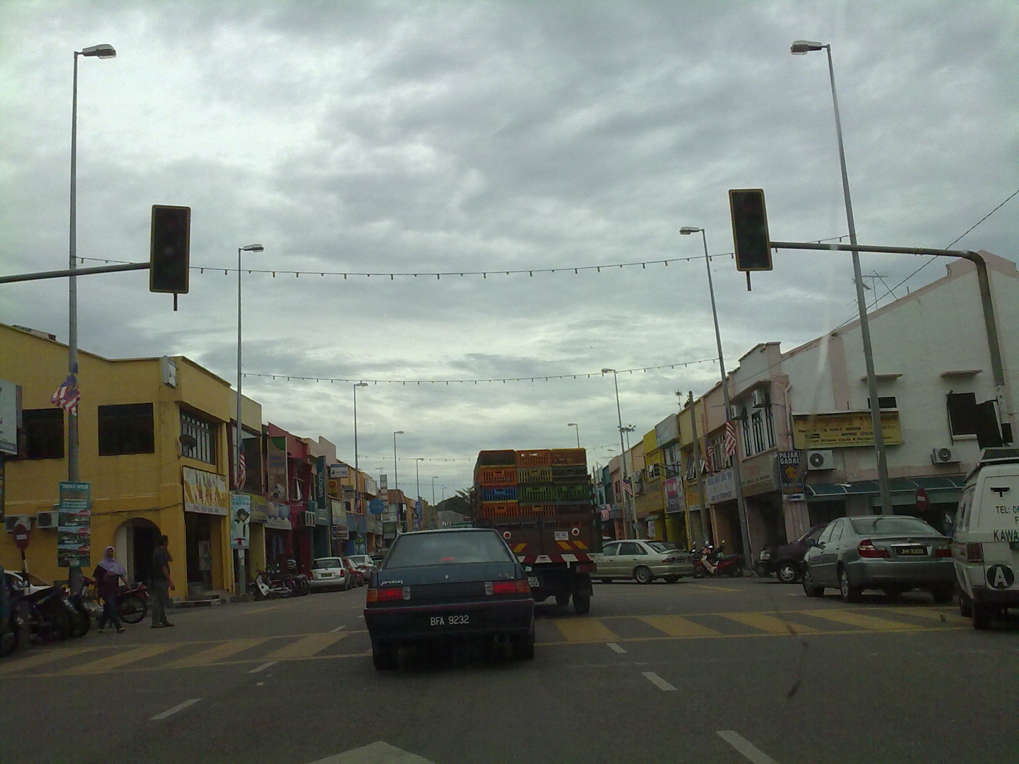 Jalan Utama Bahau